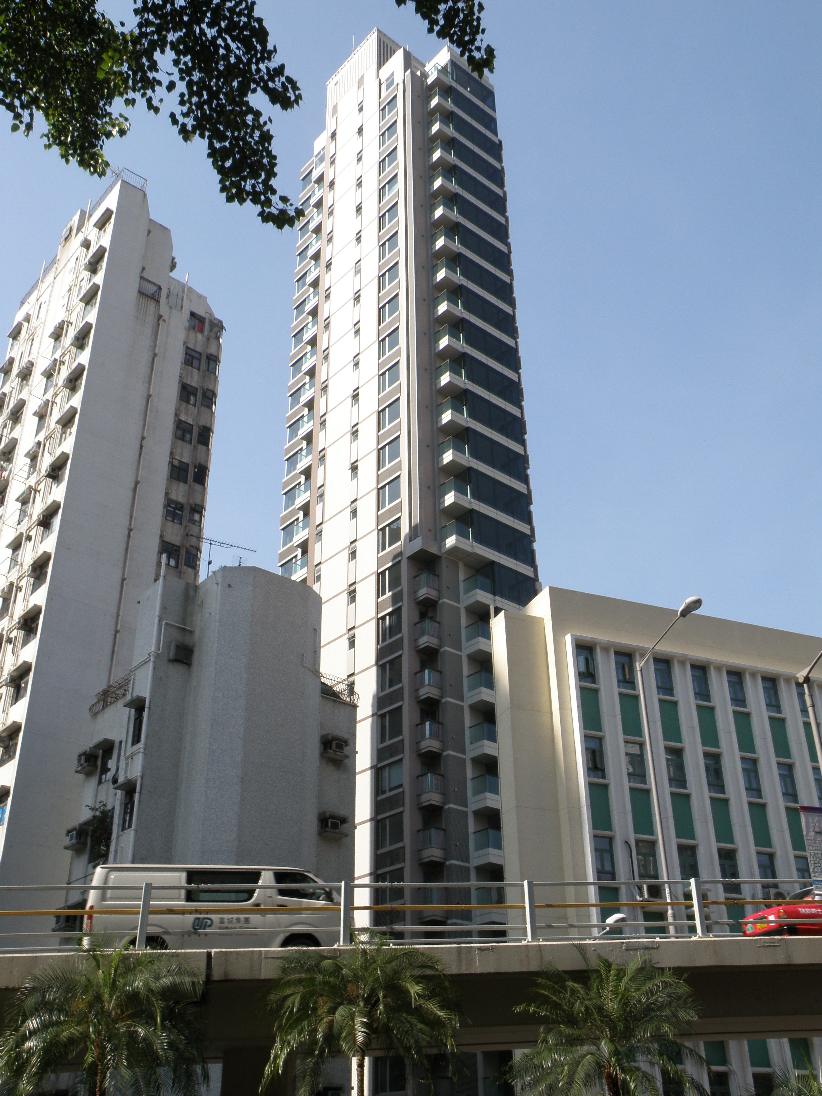 High West in Shek Tong Tsui, Hong Kong.